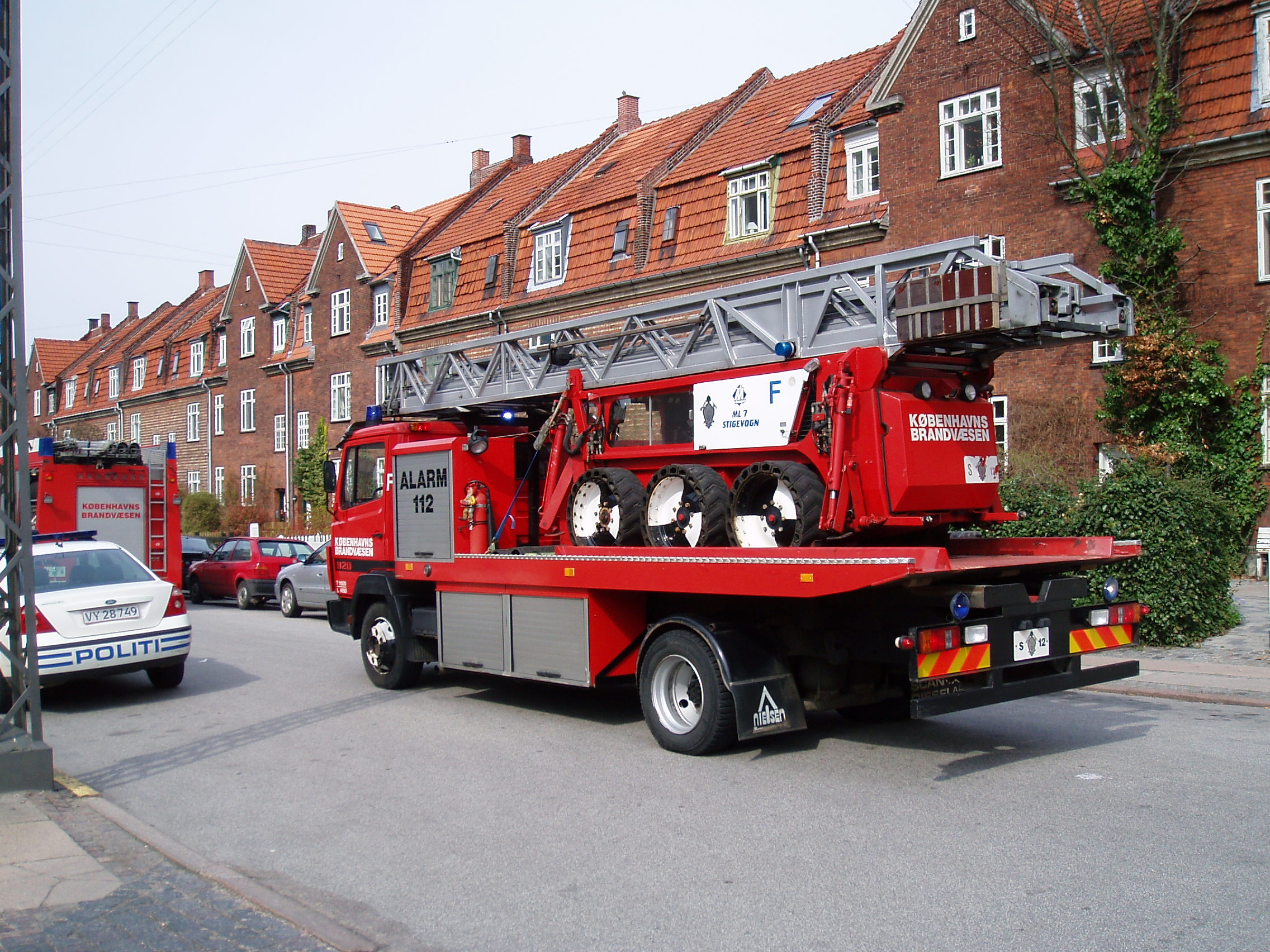 Self-driven Bobcat aerial ladder at Copenhagen Fire Brigade district F (Nørrebro) transported by a Mercedes-Benz 1120. The flatbed on the truck can be raised and ramps set on it allowing the ladder vehicle to drive down from the truck and move around on the street. Especially used inside yards with narrow access from the road.